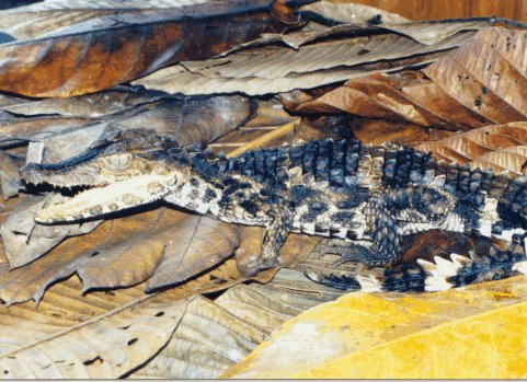 Photo of juvenile P. trigonatus from Peru